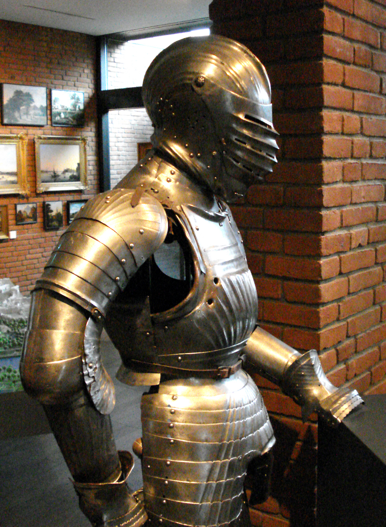 16th century Maximilian armour now exhibited in the Focke-Museum, the museum for art and cultural history of the state of Bremen. The armour belonged to the Complimentarius, a mechanical greeting-automaton that was installed from the early 17th to the early 19th century in the Schütting (the merchant guild headquarters) in Bremen.